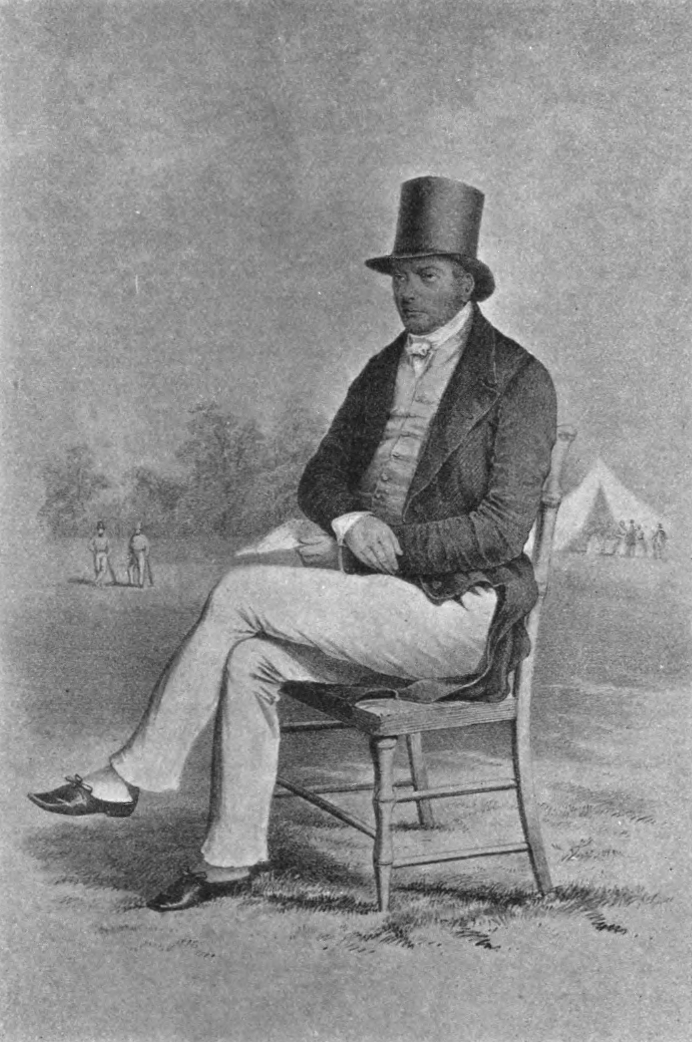 WILLIAM WARD, ESQ. (From an engraving reproduced by permission of the M.C.C.) scanned image from book "The Hambledon Men" by Edward Verrall Lucas